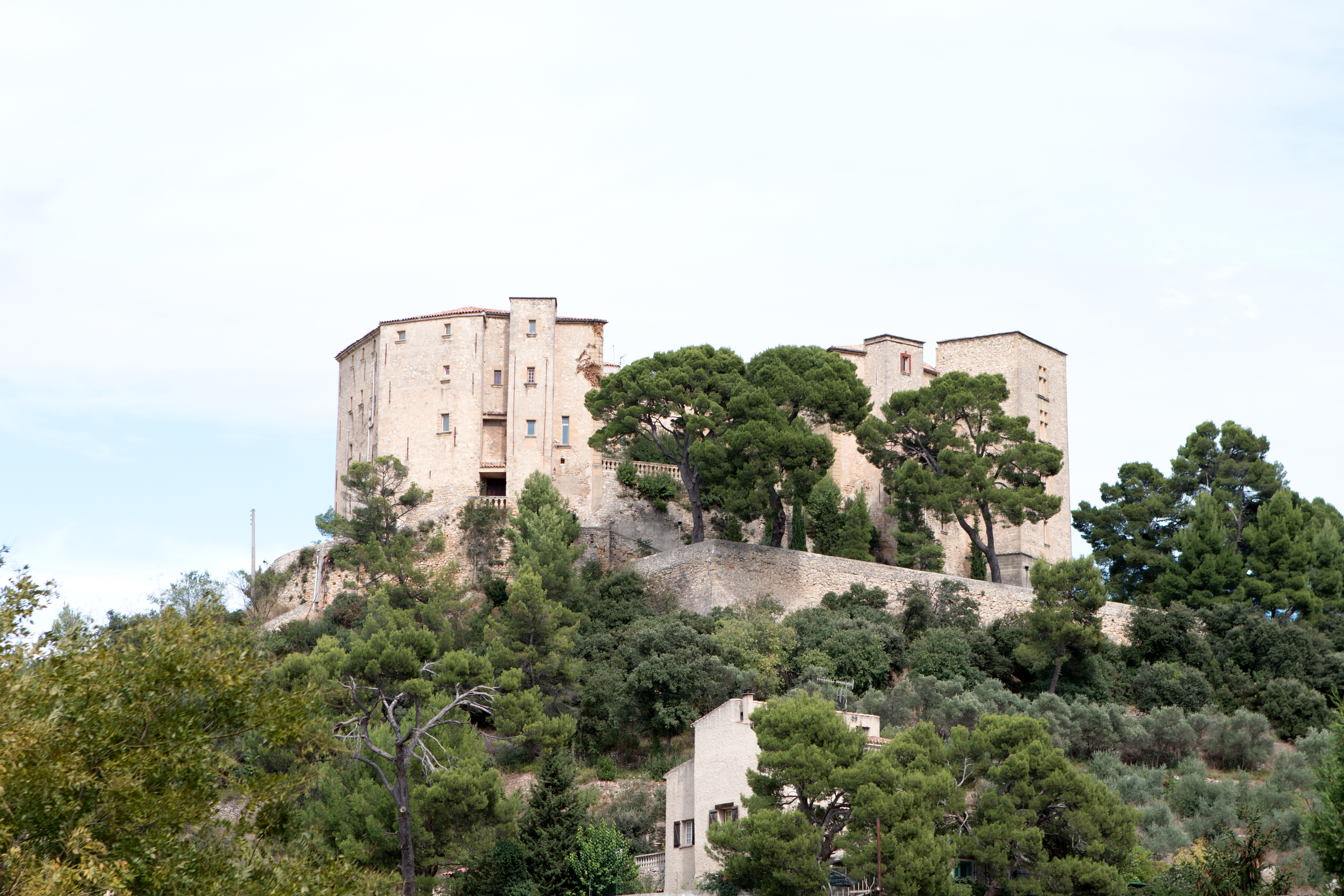 The castle of Meyrargues, Bouches-du-Rhône (France).